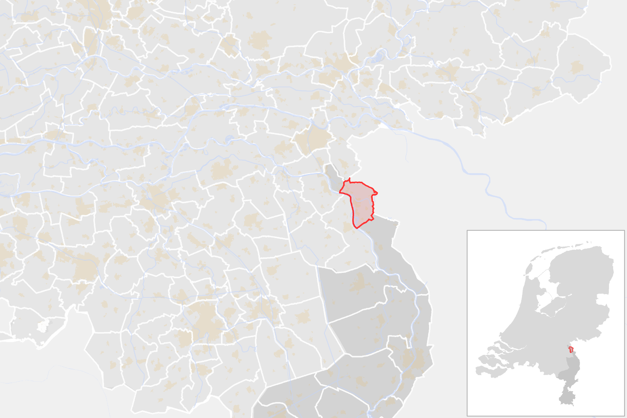 Locator map showing municipality boundary of one of the 390 Dutch municipalities (as of 2016)